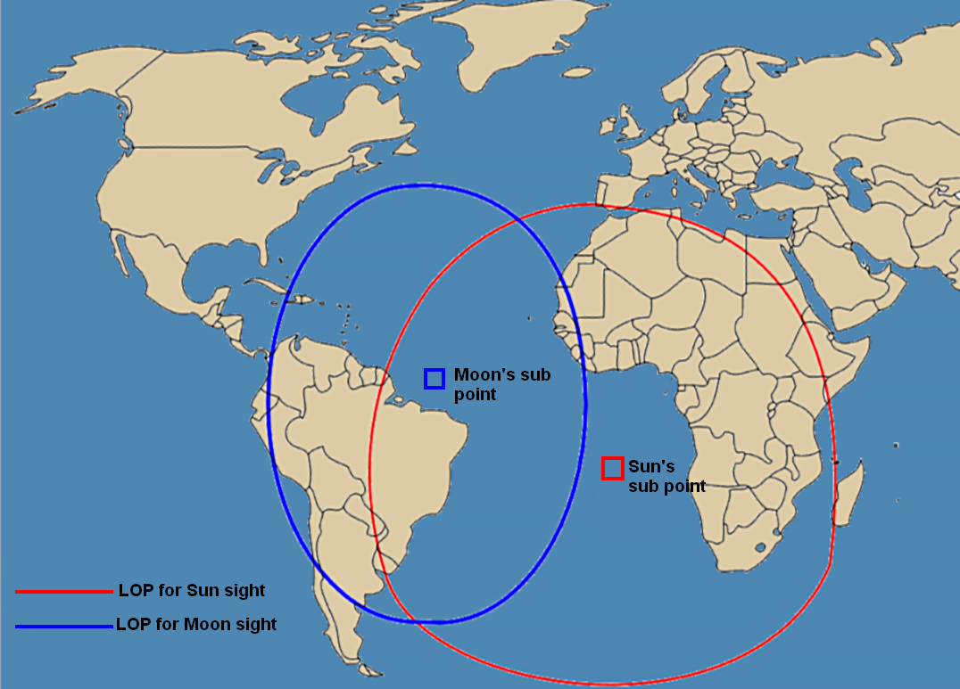 English translation of Image:Trajet Soleil-Lune.PNG